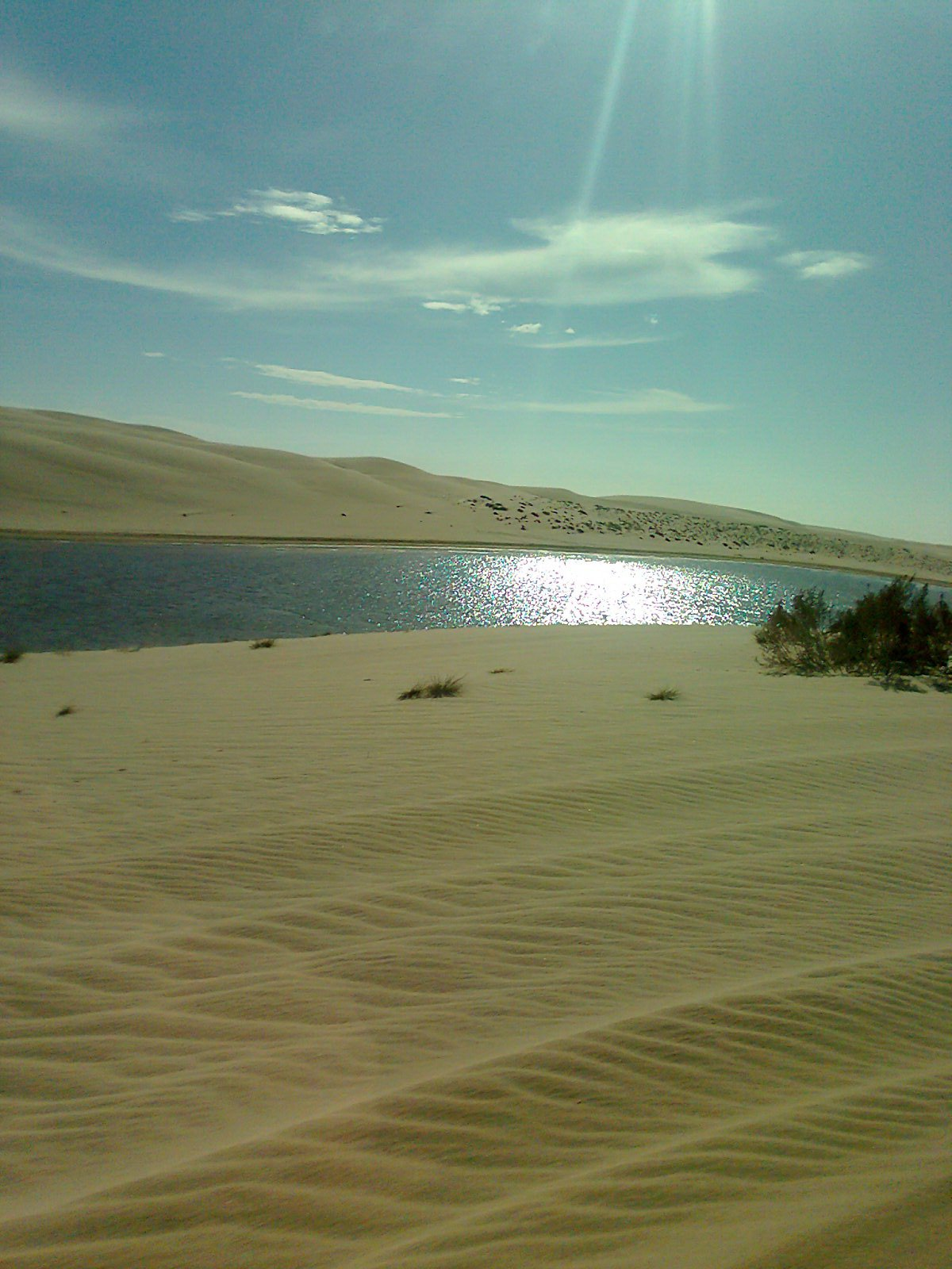 A picture of the desert in Mesaieed.